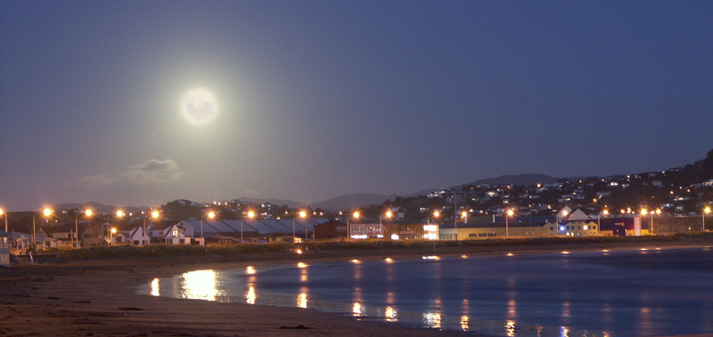 FullMoonOverLyallBay.jpg - photo taken and uploaded by Paul Moss, Photographer, Artist, Paul Moss Photographer Artist NZ